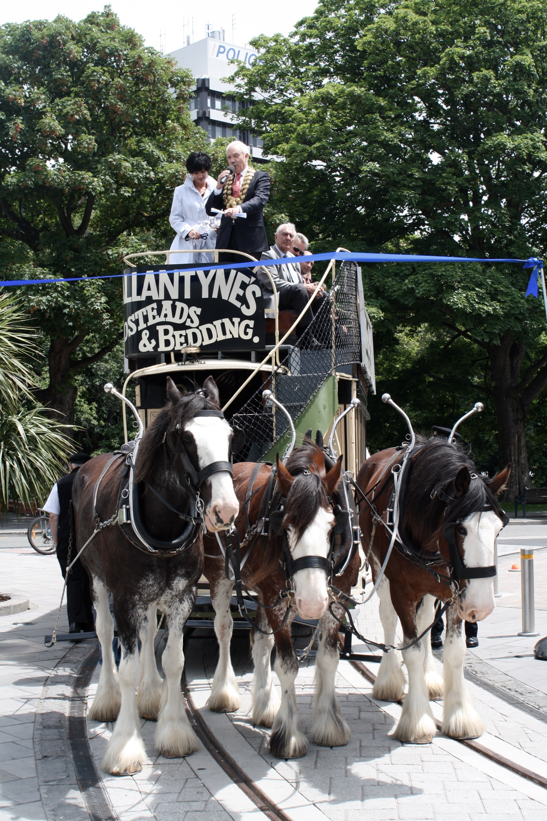 City Mall official opening on 17 December 2009. Mayor Bob Parker and the mayoress on top of the historic tram.